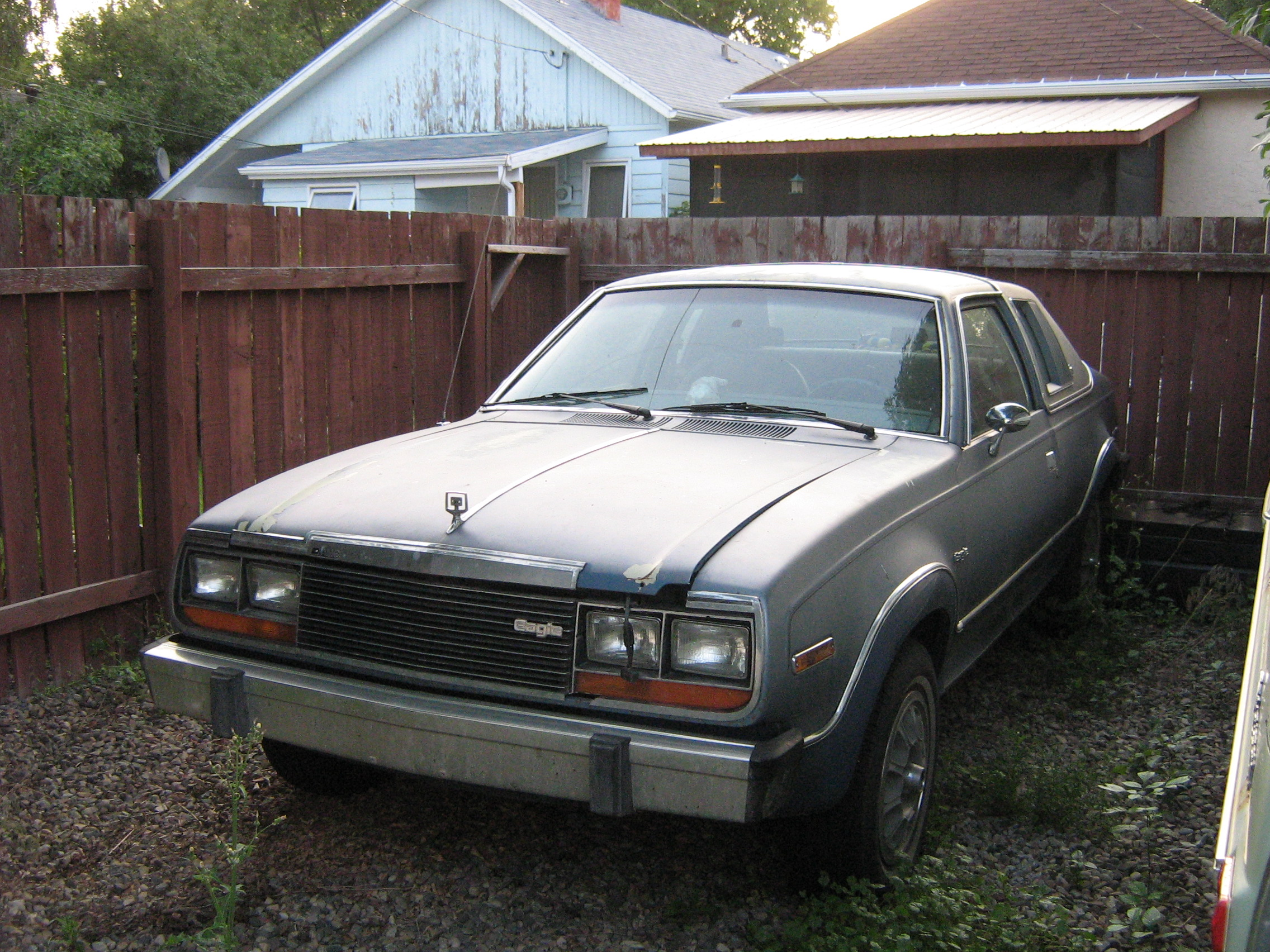 1980 AMC Eagle in two door sedan form